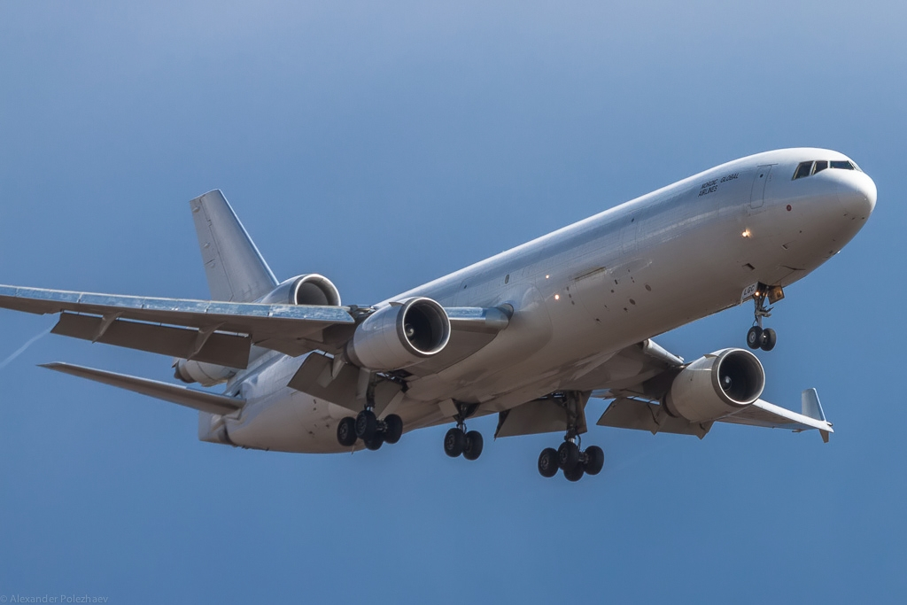 Landing at Tolmachevo, Novosibirsk UNNT